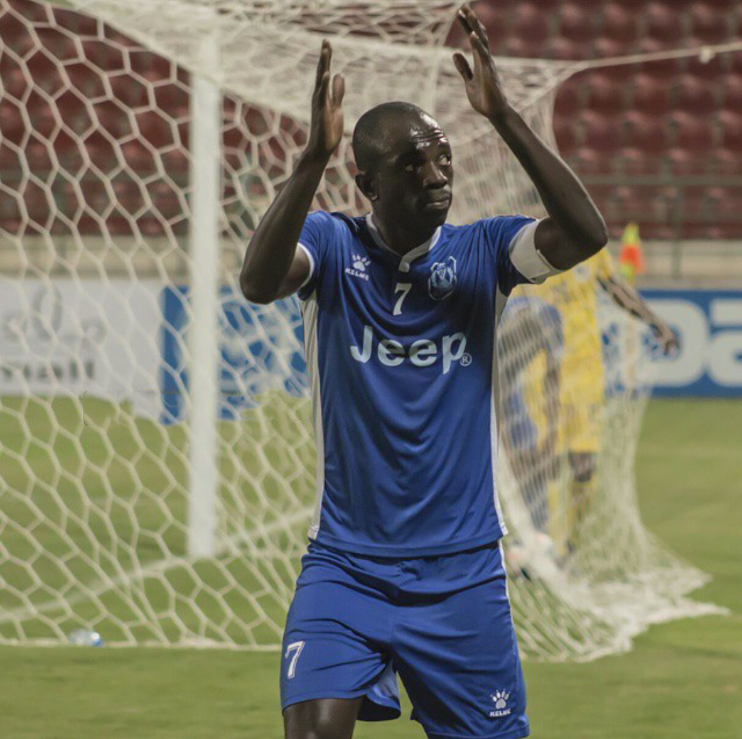 Mohamed Ablaye Gaye celebrating after winning the match against Al Ittihad in Sultan Cup. 16 December 2014 Al Saada Stadium, Salalah Photographer email id